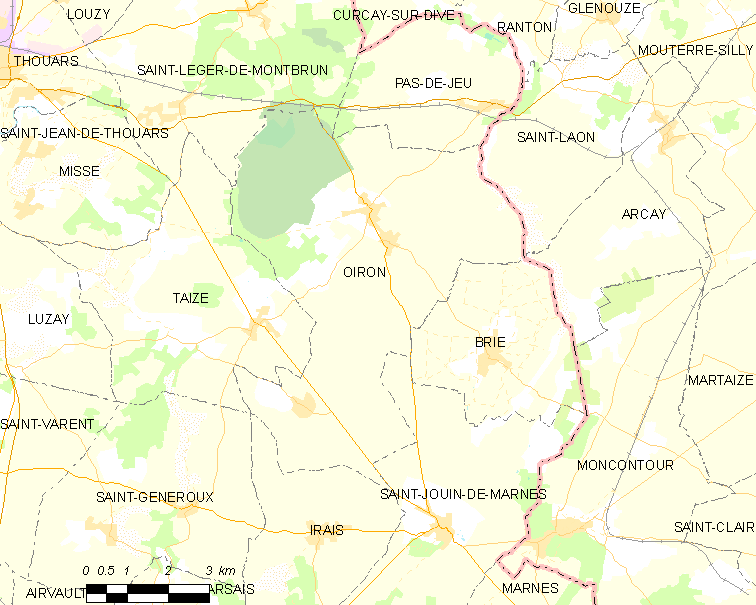 Map of French municipality Oiron